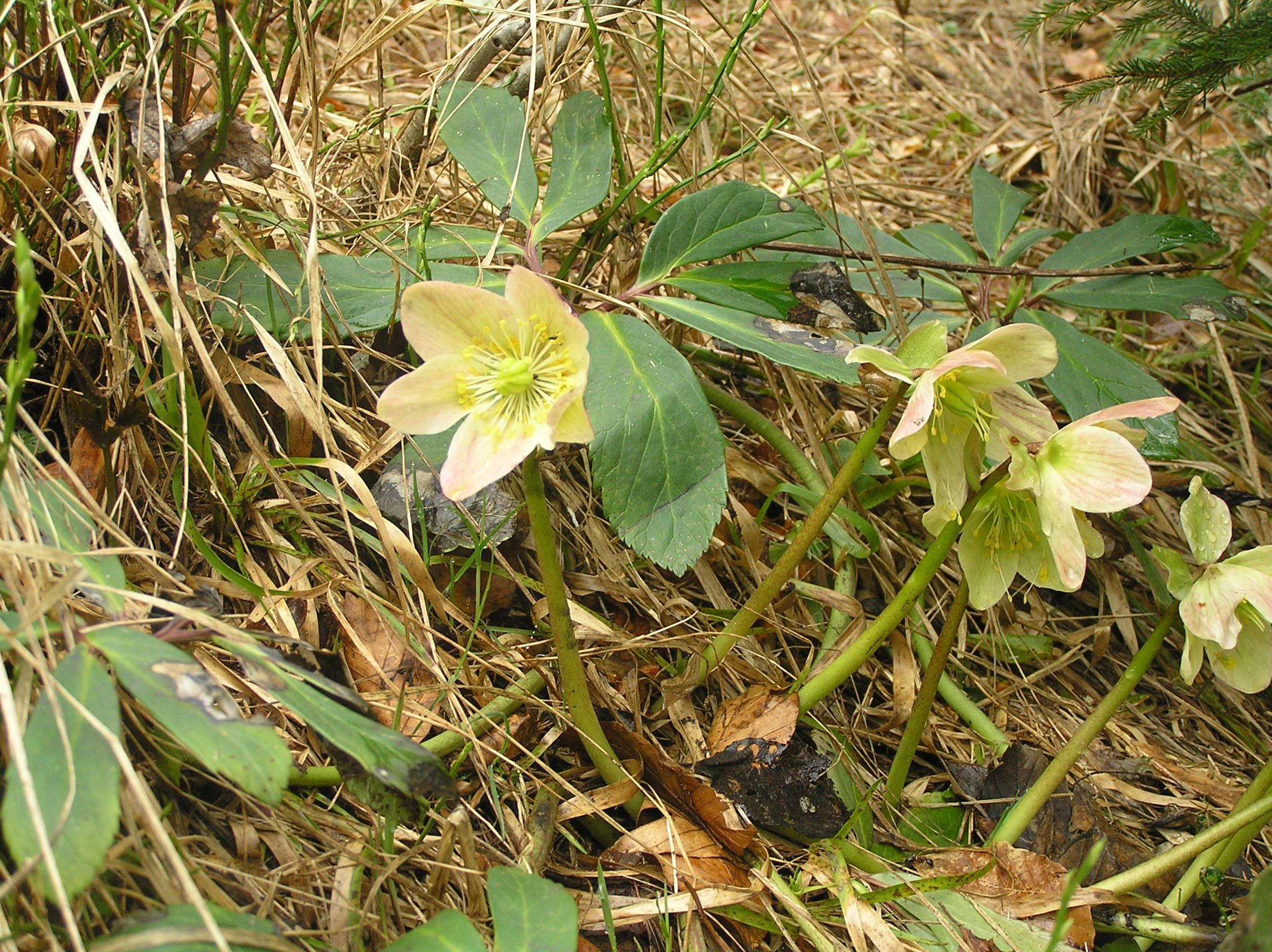 Helleborus niger, Austria, Alps, the mountain Schneeberg near Wiener Neustadt